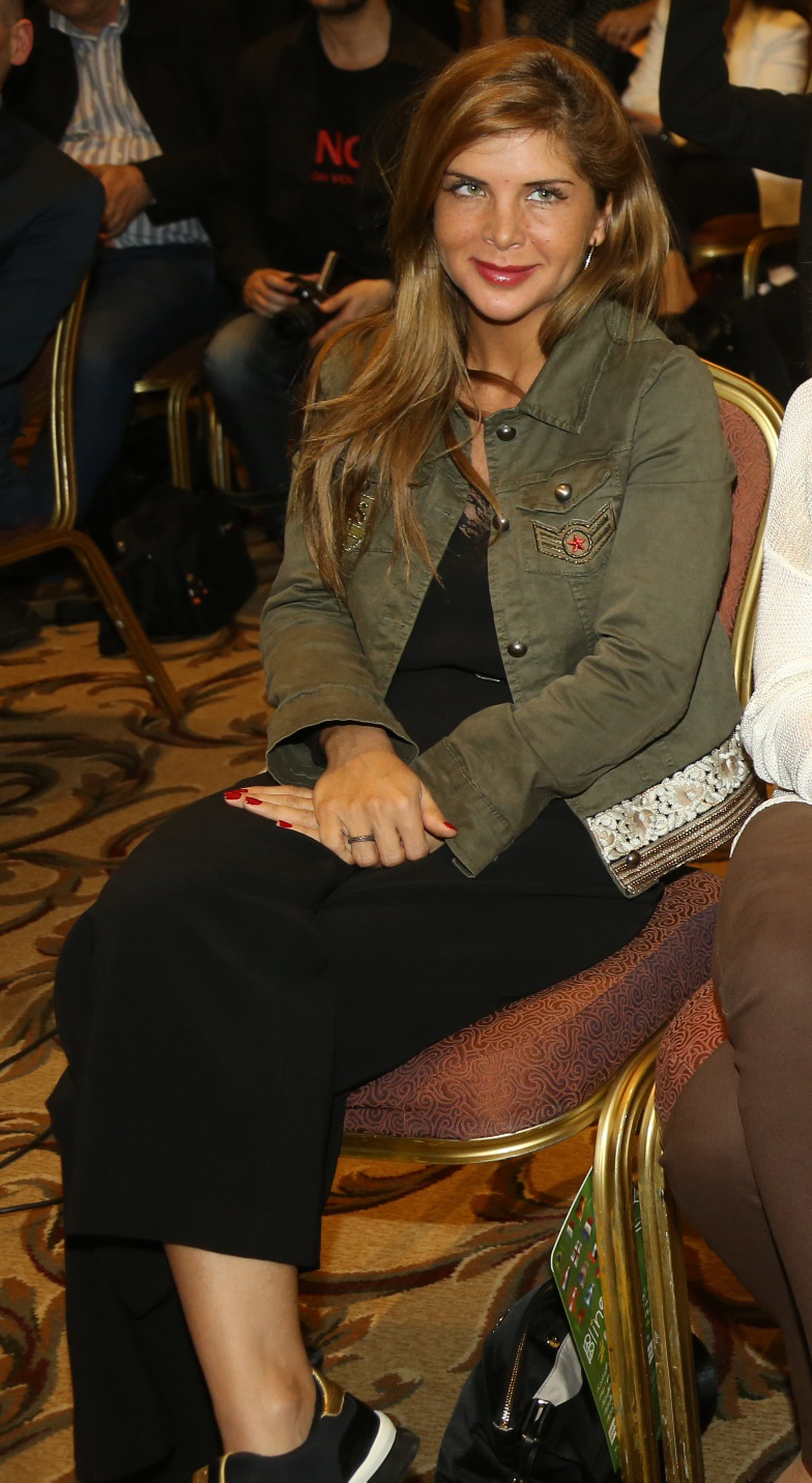 Aline Lahoud during press conference of Beirut Holidays Festival, Phoenicia Hotel.